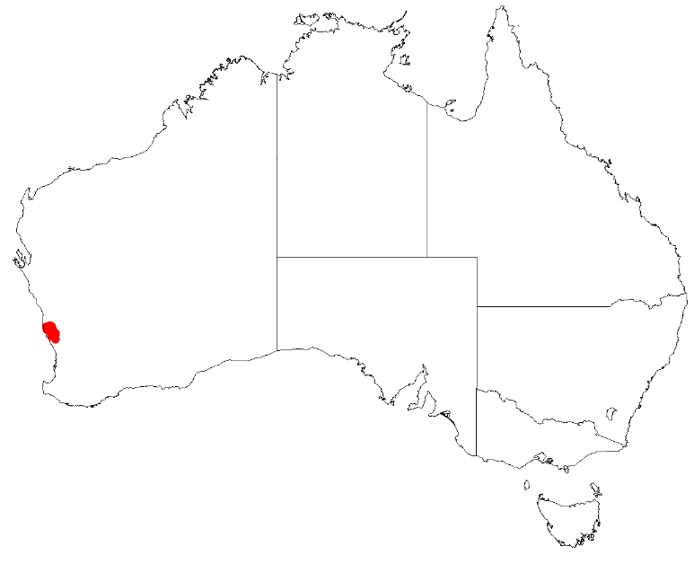 Conostylis angustifolia Occurrence data downloaded from Australasian Virtual Herbarium on 12 May 2017